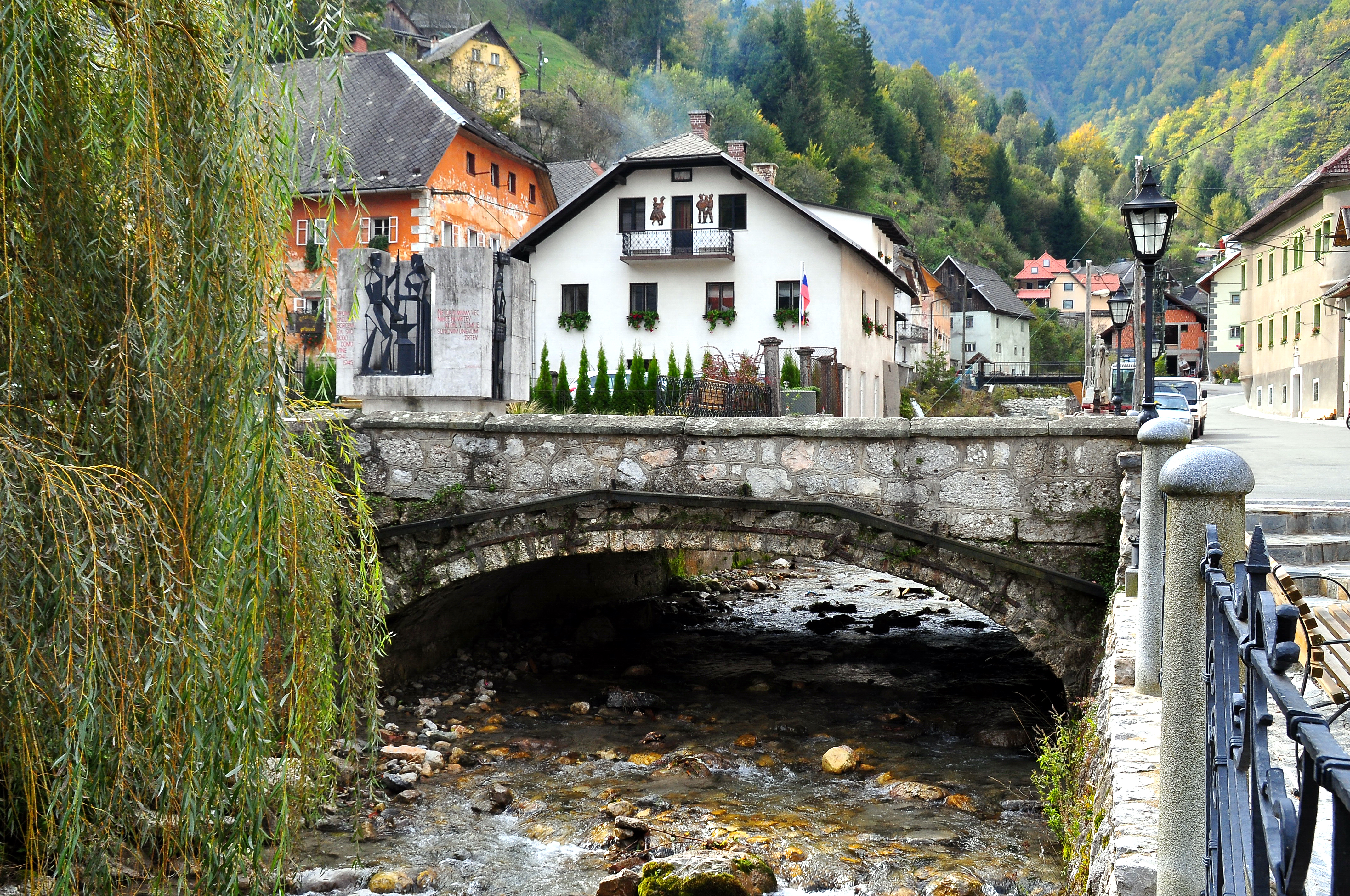 Bridge across the Kroparica in the center of Kropa, a village in the community of Radovljica, Gorenjska, Slovenia